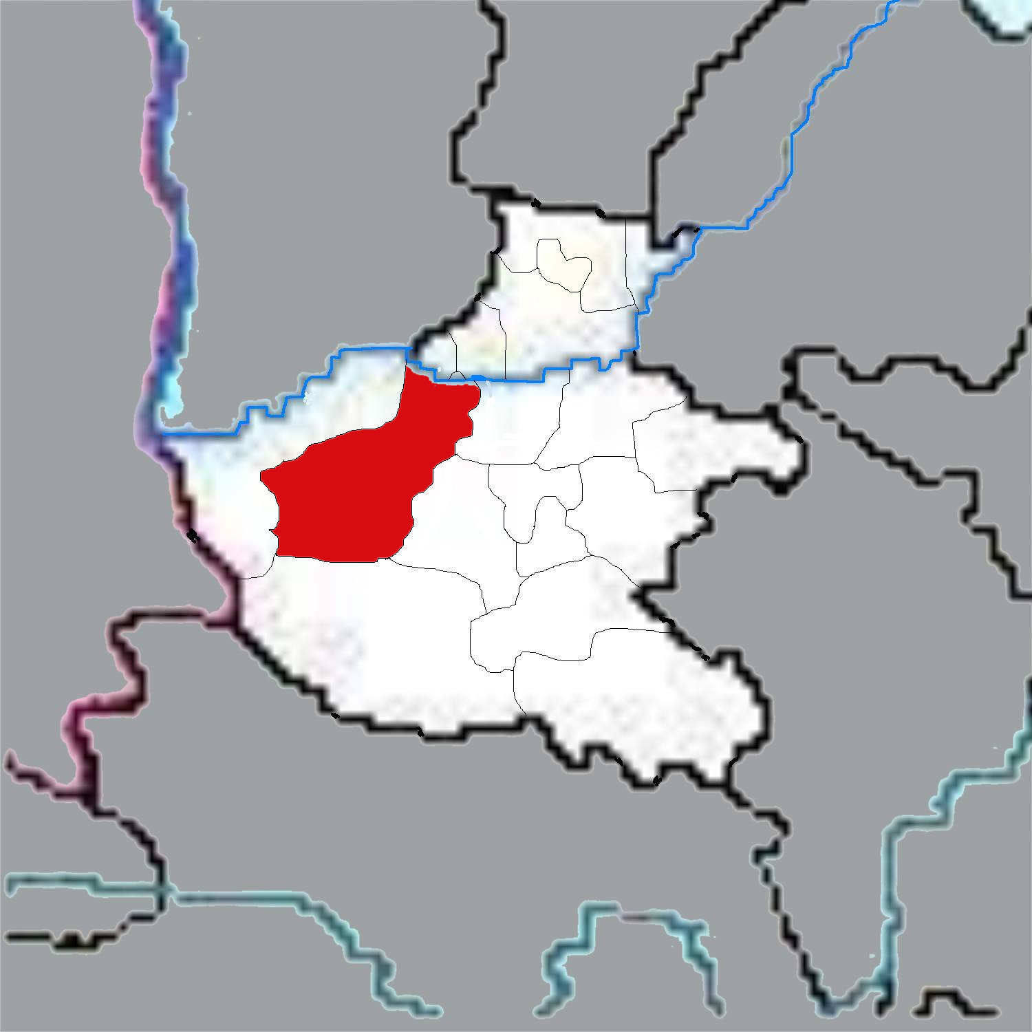 Maps of Henan Province of China